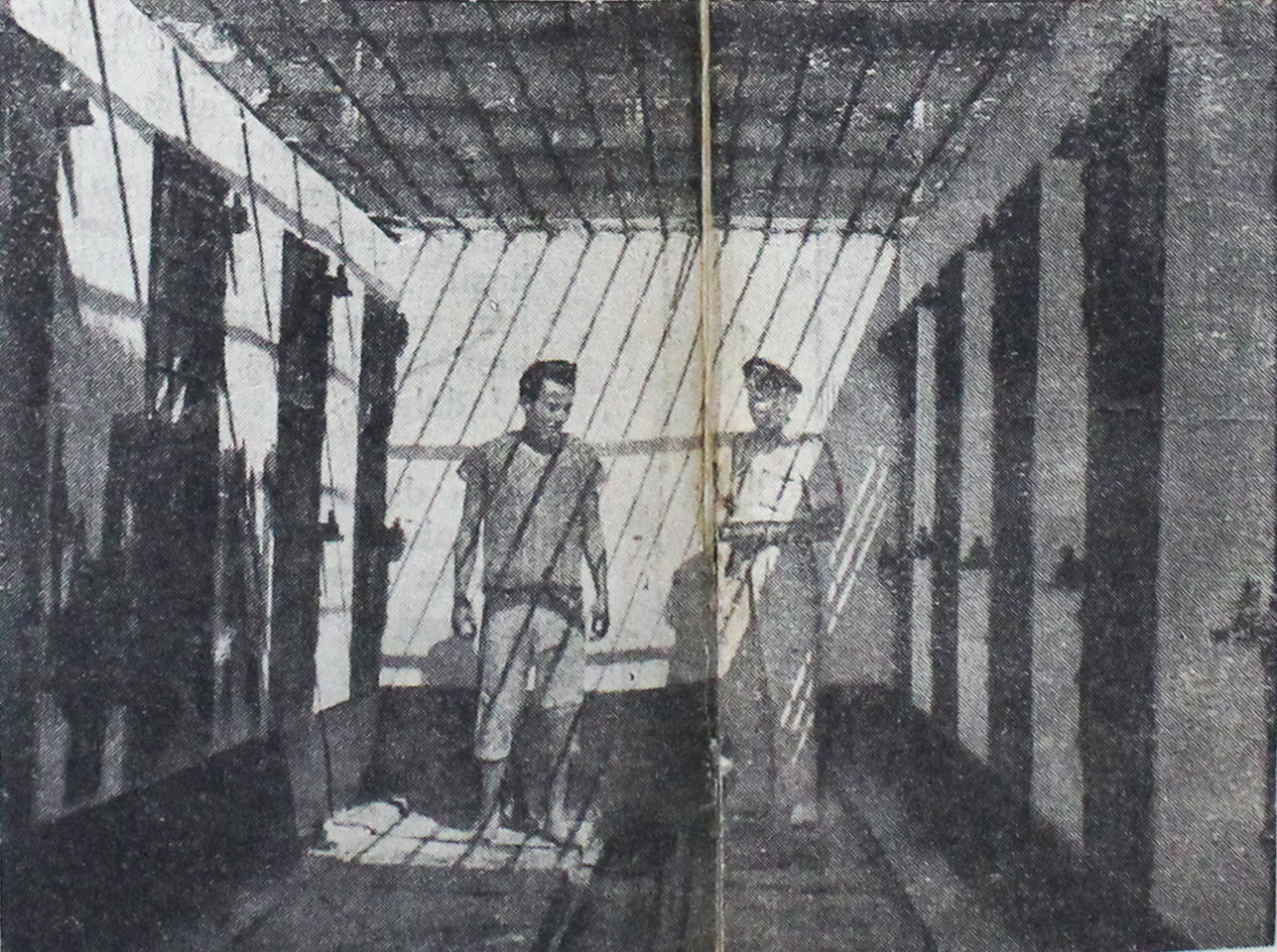 A promotional still from the 1954 Indonesian film Harimau Tjampa